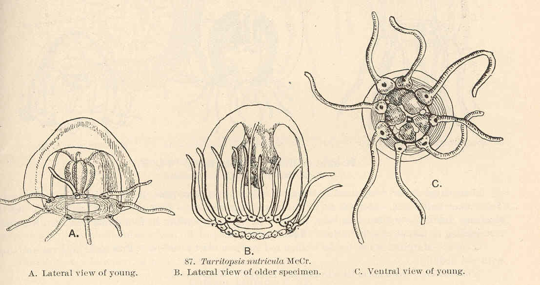 Turritopsis nutricula McCr. A.Lateral view of young. B.Lateral view of older specimen. C.Ventral view of young Subject: Turritopsis, Hydroida Tag: Invertebrates